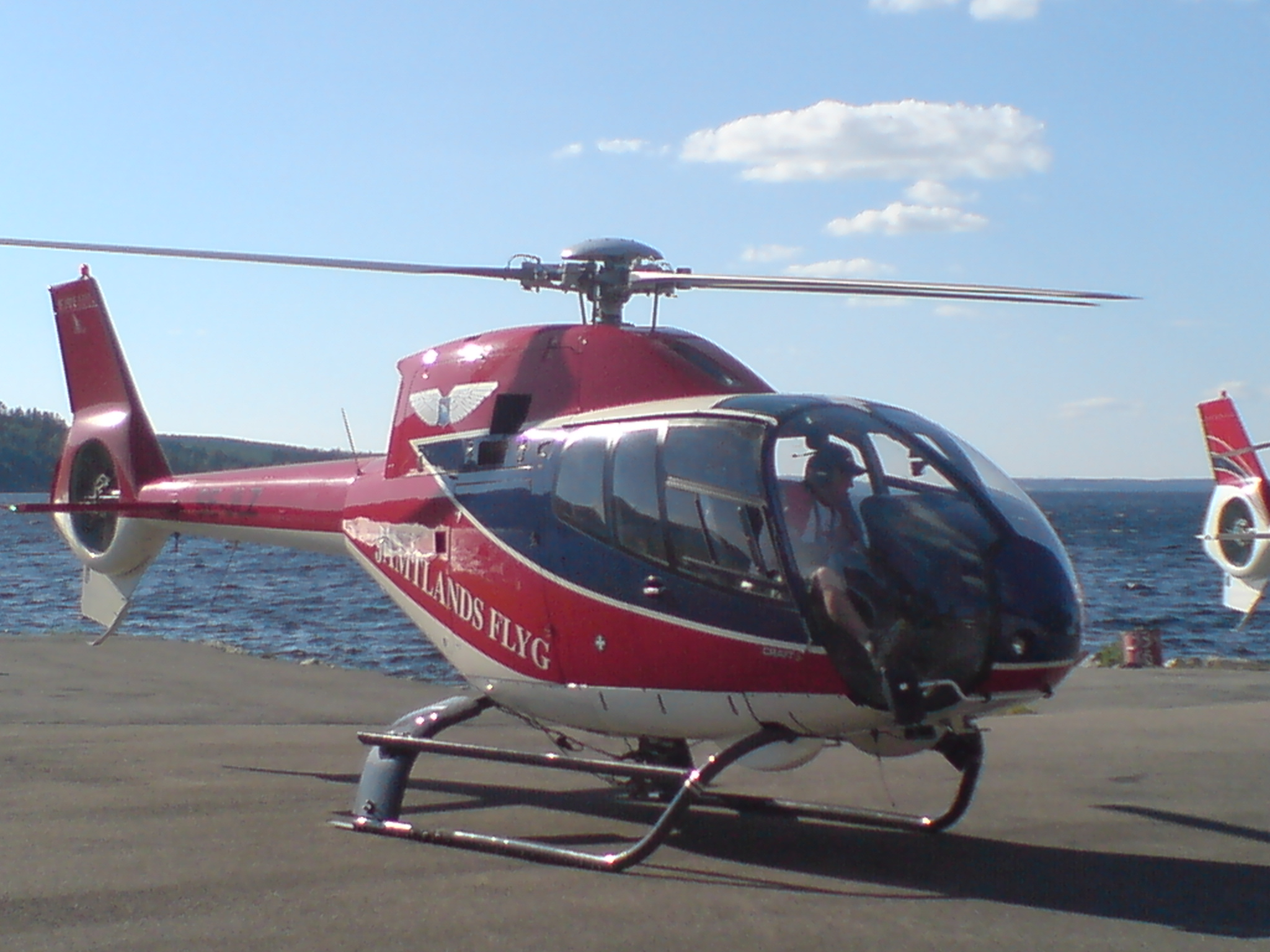 Eurocopter EC120 B Colibri from Jämtlands Flyg AB operating out of Östersund, Jämtland, Sweden. At Göviken base in Östersund, Sweden